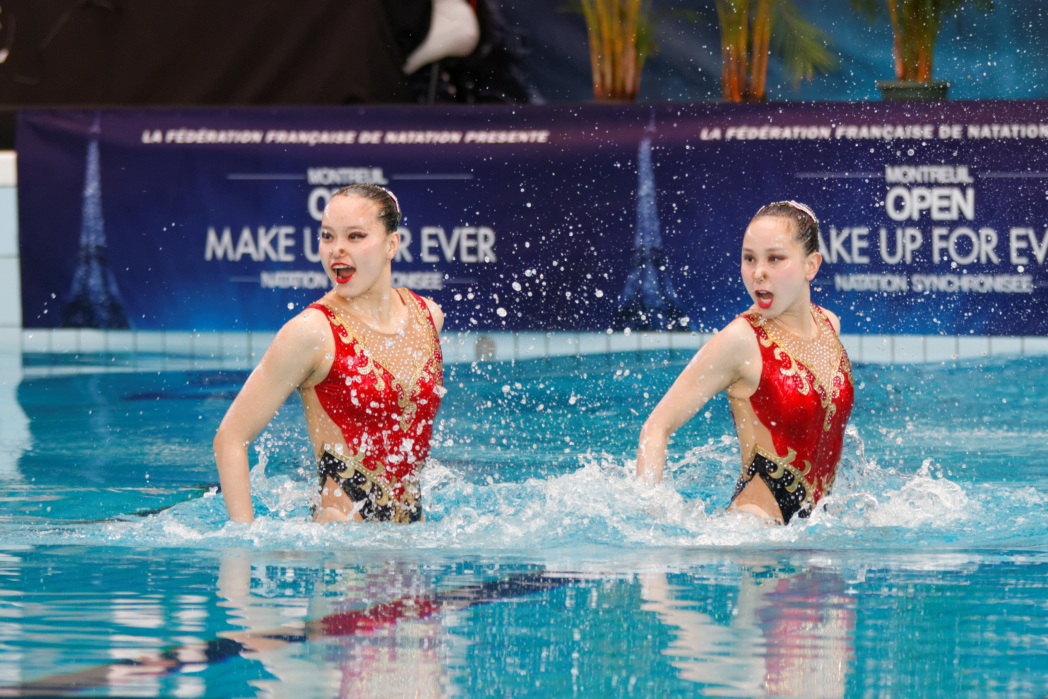 Chinese synchro swimmers Wu Yiwen and Huang Xuechen in a Duet exercise during the French Open in Montreuil, March 14, 2013.